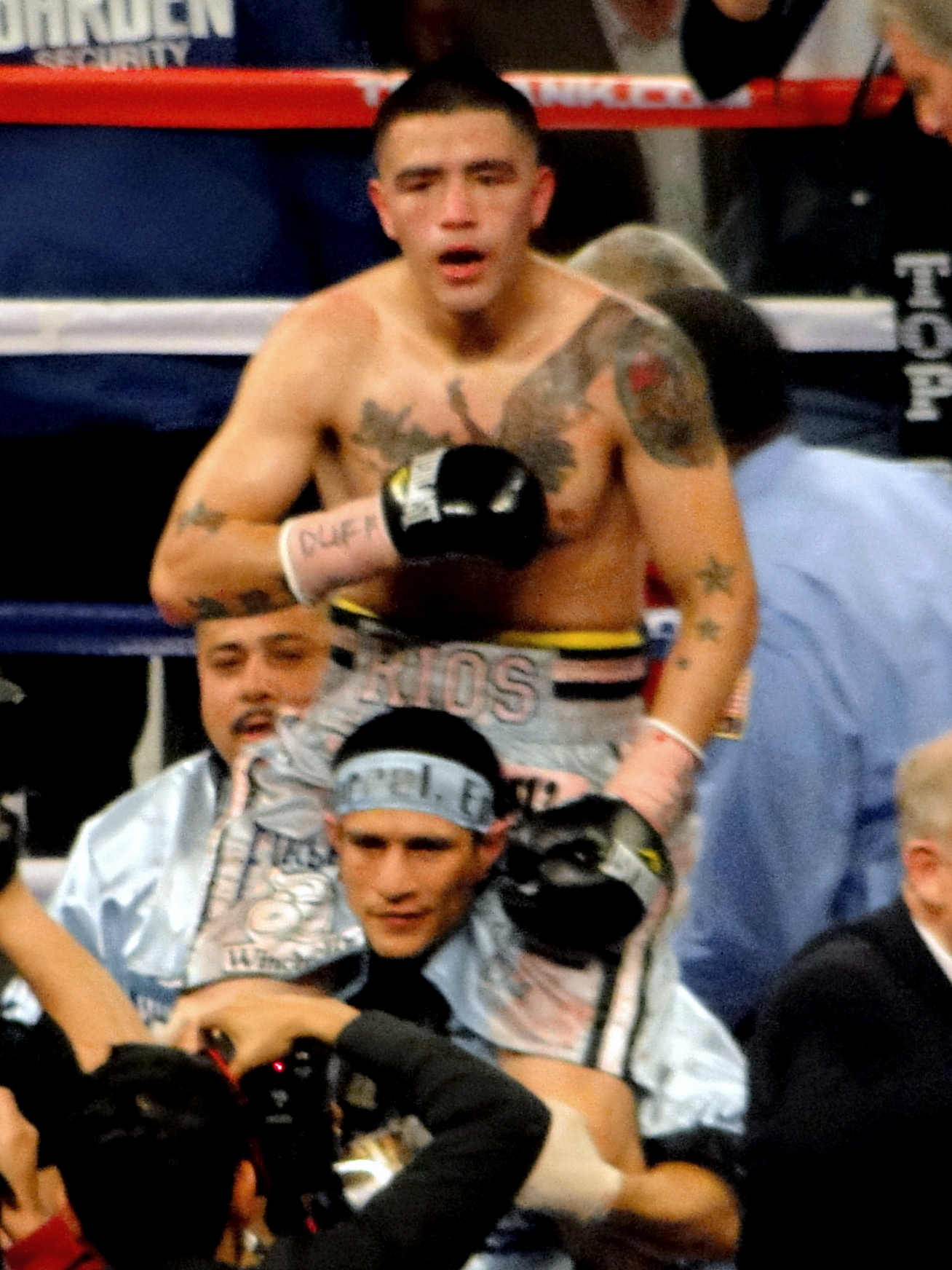 Brandon Rios at the Madison Square Garden on December 3, 2011.